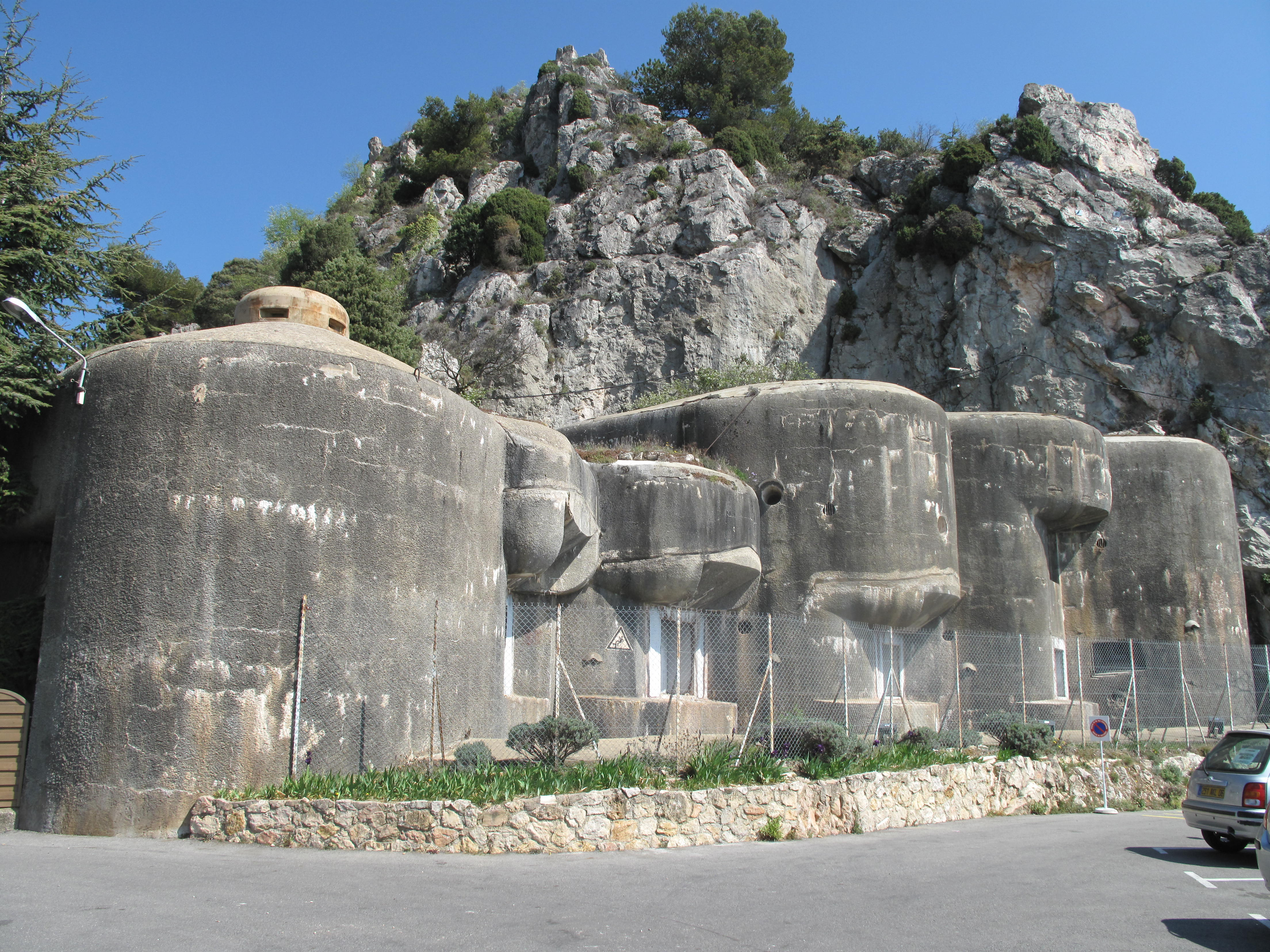 The block #2 of the maginot fort of Sainte-Agnès (Alpes-Maritimes, France).